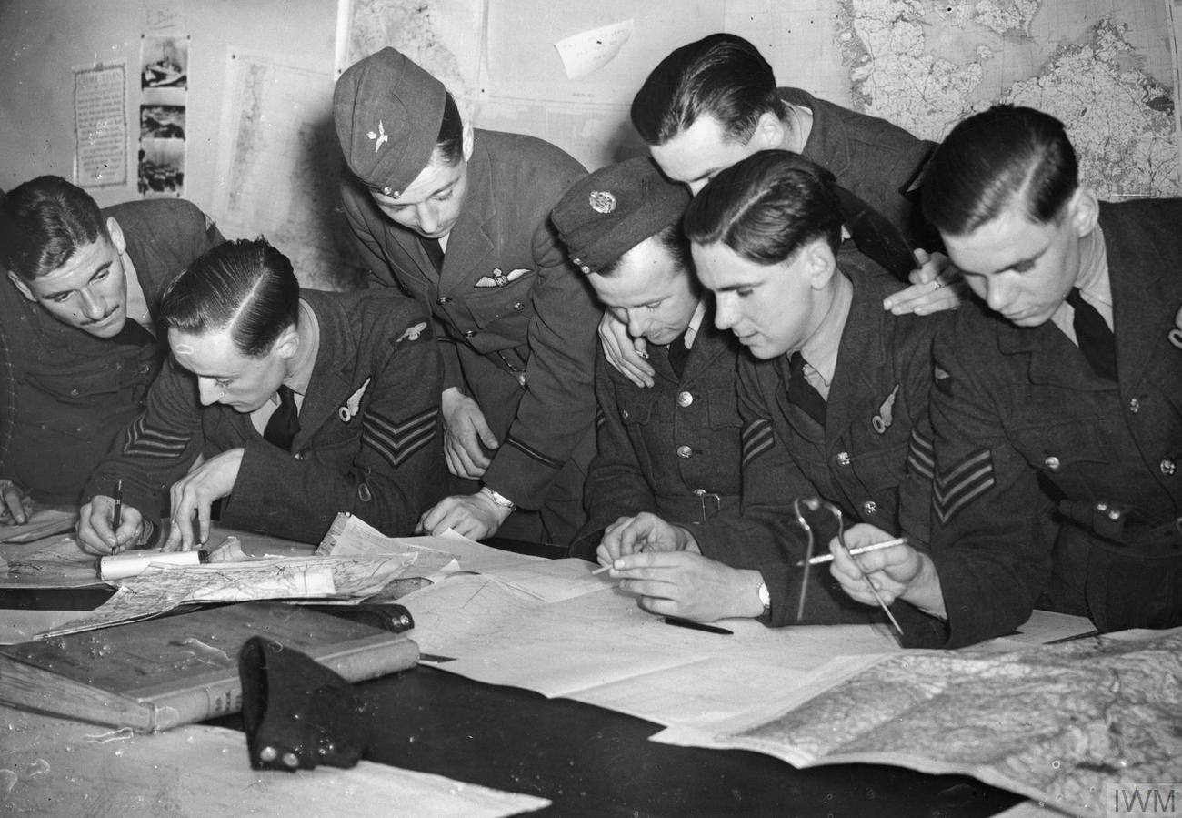 RAF Bomber Command 1940 Wellington observers receive final instructions from the squadron navigation officer before setting out on a raid over Germany, 5 September 1940.